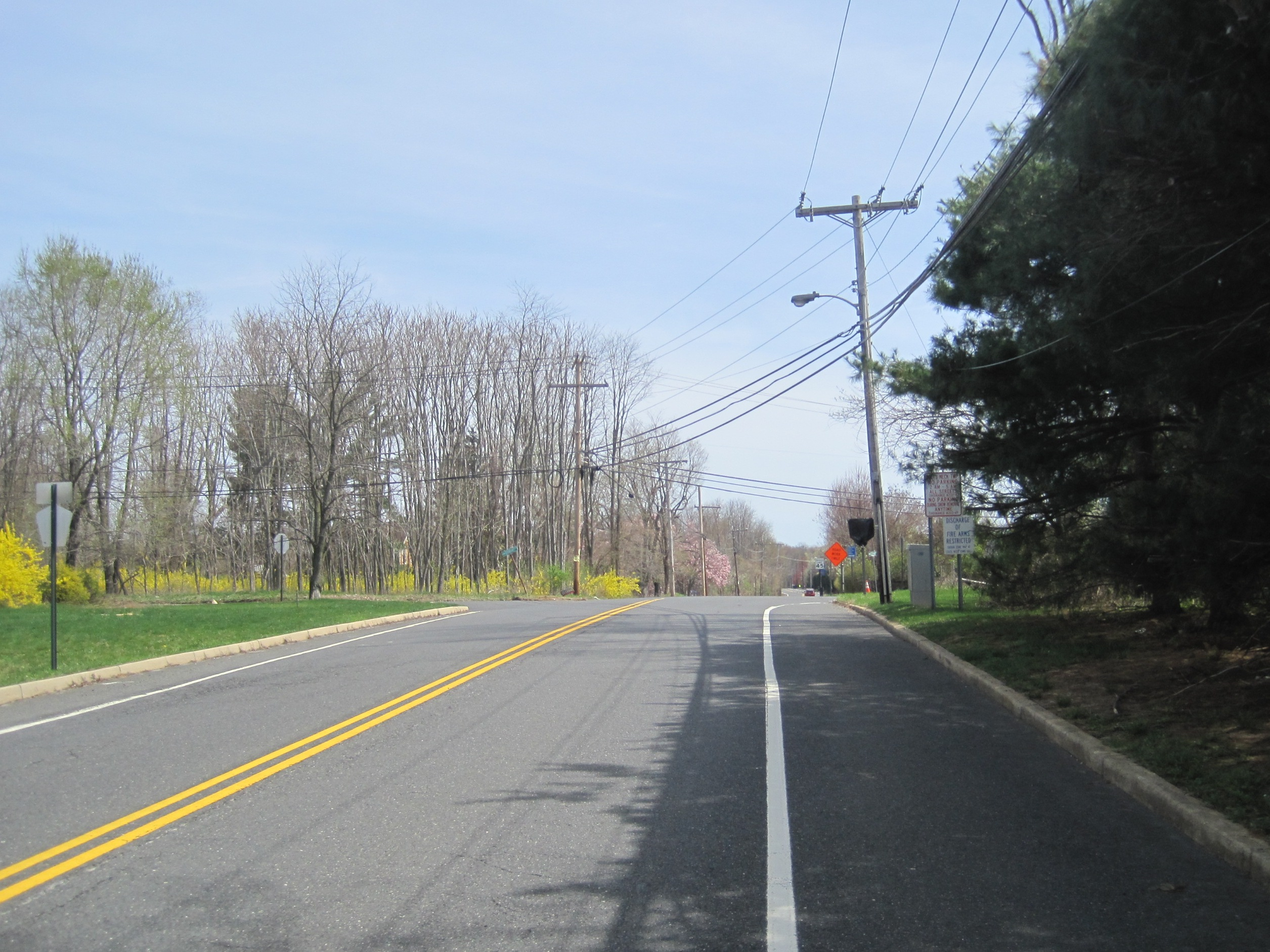 Photo of Montrose, New Jersey, an unincorporated community on the border of Marlboro and Colts Neck townships. Photo taken on eastbound Dutch Lane Road (County Route 46) approaching Boundary Road.